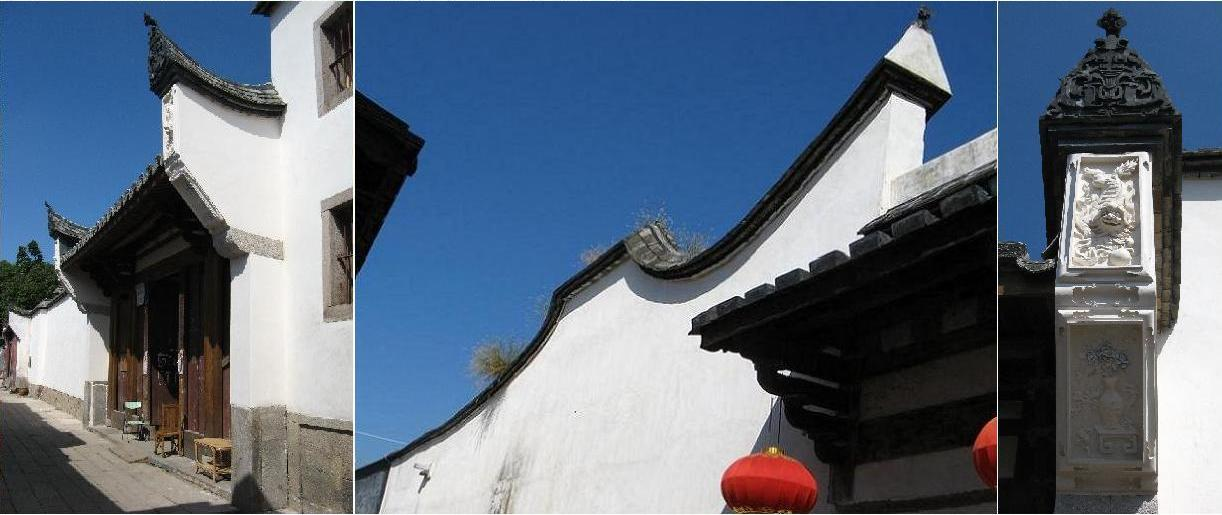 Traditional Foochow House in the Three Lanes and Seven Alleys in Fuzhou